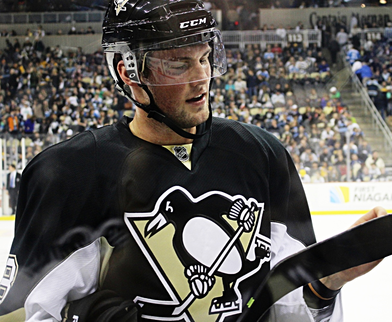 Pittsburgh Penguins defenseman Brian Dumoulin skating against the Calgary Flames, December 21, 2013 at Consol Energy Center in Pittsburgh, PA.